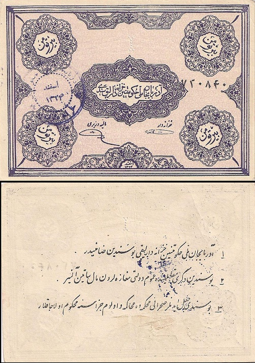 Note of the National Government of Azerbaijan based in Tabriz